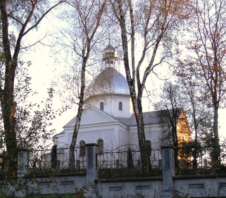 Church of the Nativity of the Most Holy Theotokos in the village Mavkovychi, Horodotsky Raion. (1902)